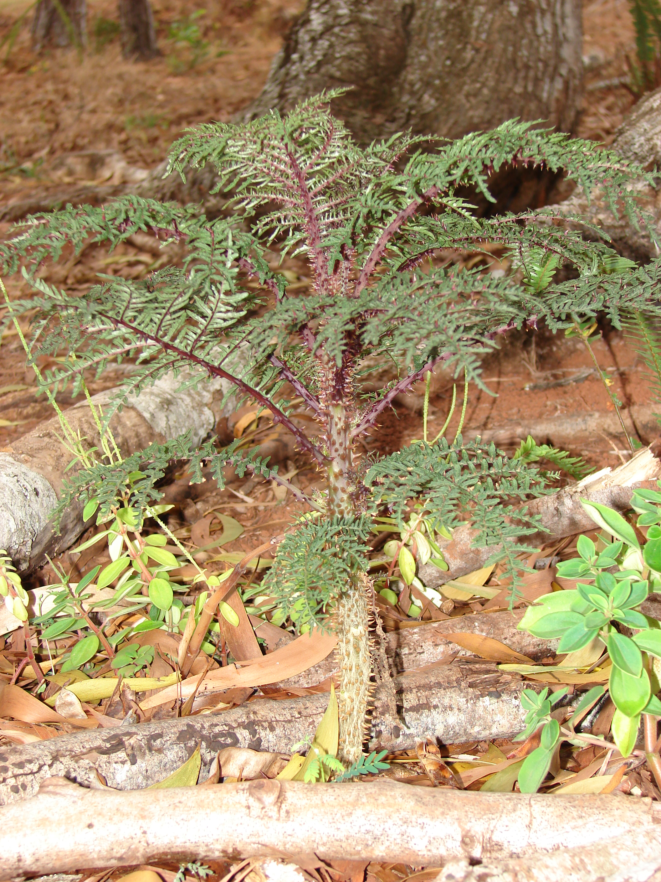 Cyanea duvalliorum (habit). Location: Maui, MISC Piiholo